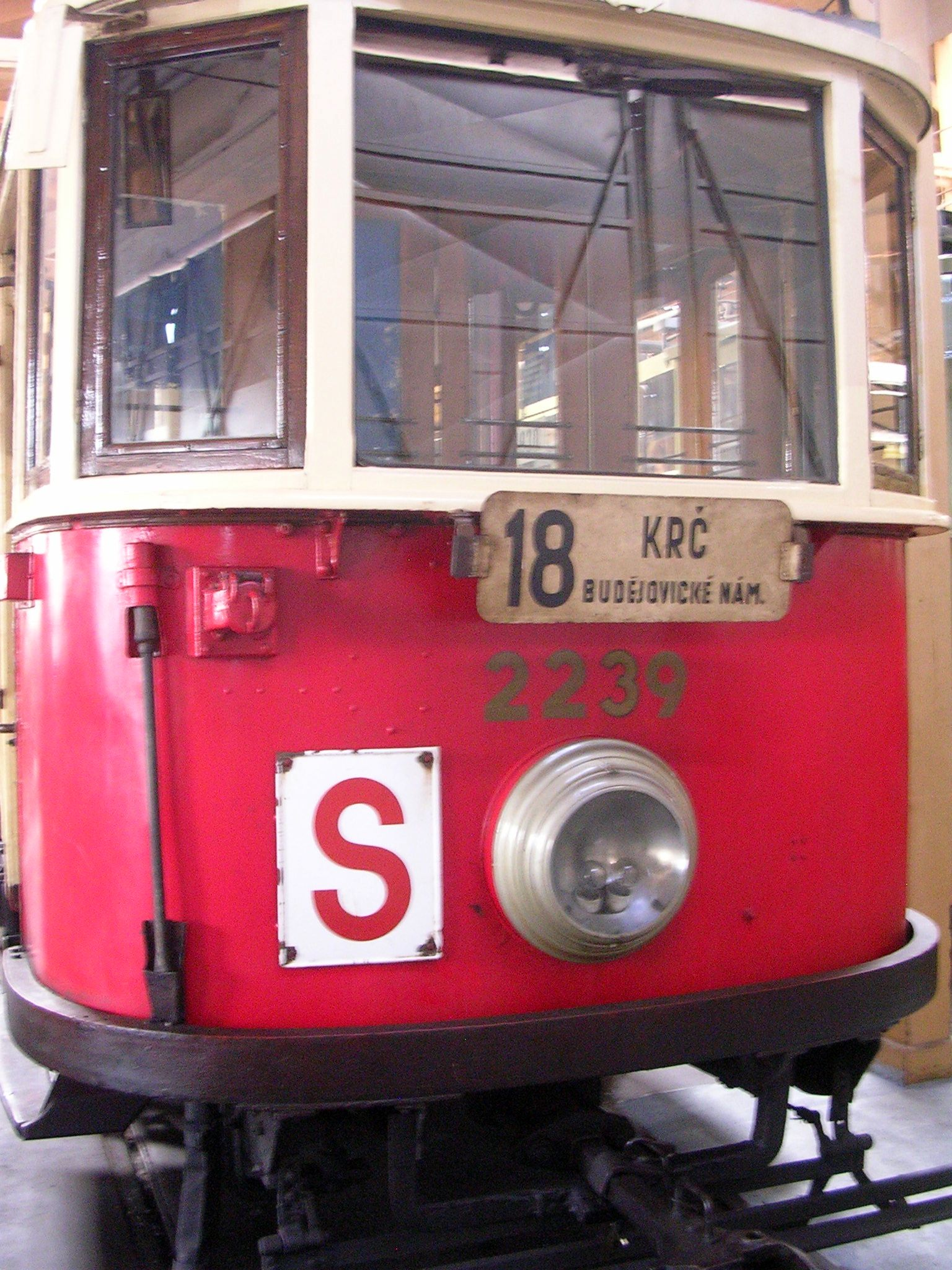 Střešovice, Prague, the Czech Republic. Střešovice tram depot and transport museum. A historical tram.